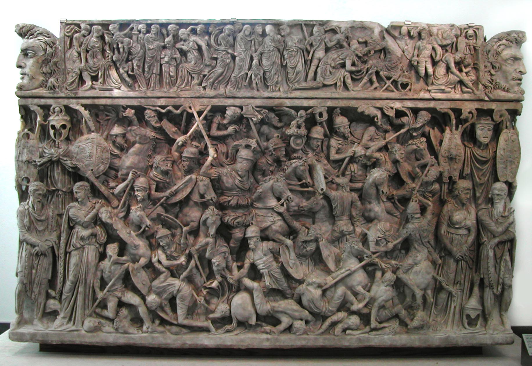 Sarcophagus with battle scene between Romans and Germans. Marble, Roman artwork, 180–190 CE.